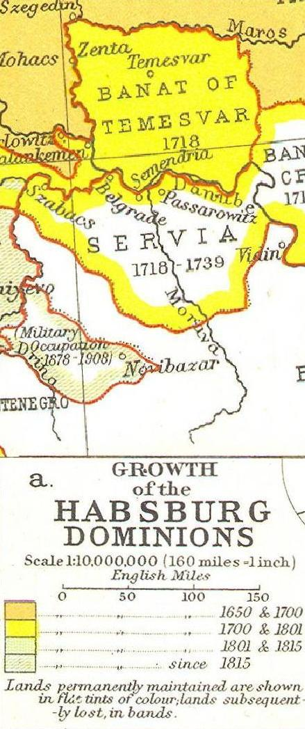 Habsburg ruled areas of Serbia throughout time